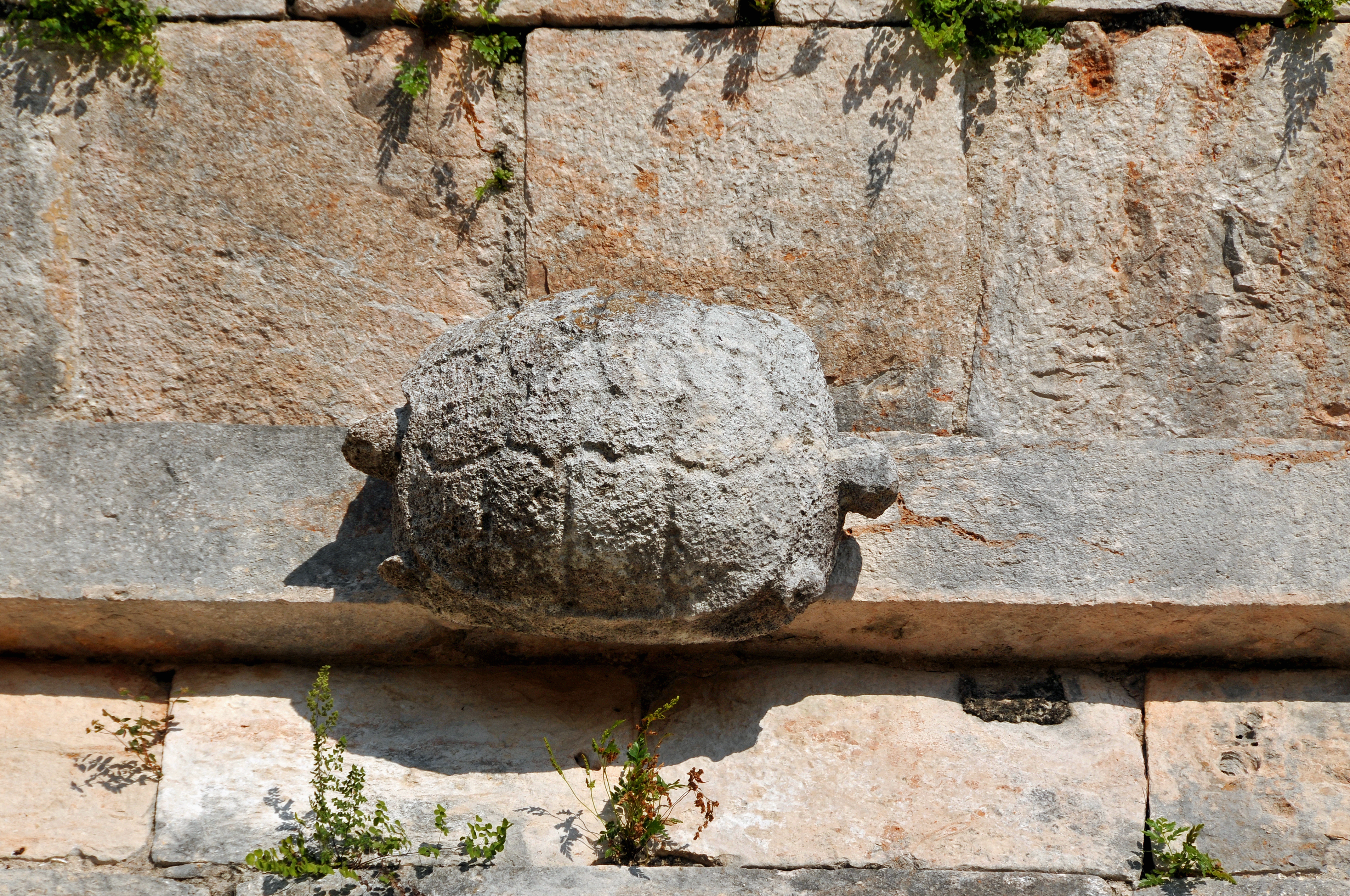 PLEASE, no multi invitations in your comments. DO NOT FEEL YOU HAVE TO COMMENT.Thanks. The House of the Turtles gets its name from the turtles that are in the middle member of the cornice moulding. Turtles are associated with water and the earth in Maya mythology. Each turtle is different, and has different markings on its shell.